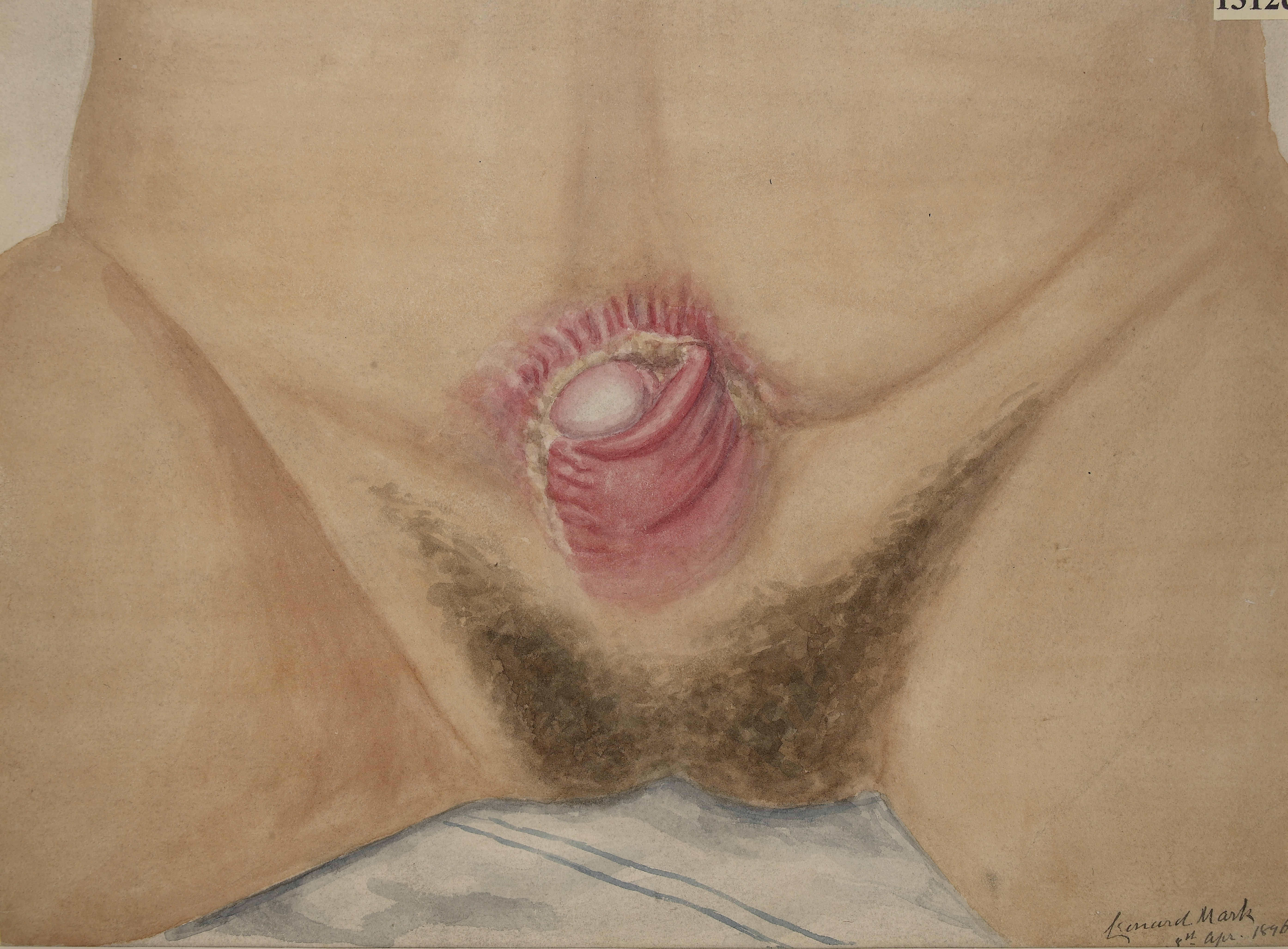 Watercolour drawing of ectopia vesicae in a man aged 23 years, after operation. Medical Photographic Library Keywords: Mark, Leonard Portal